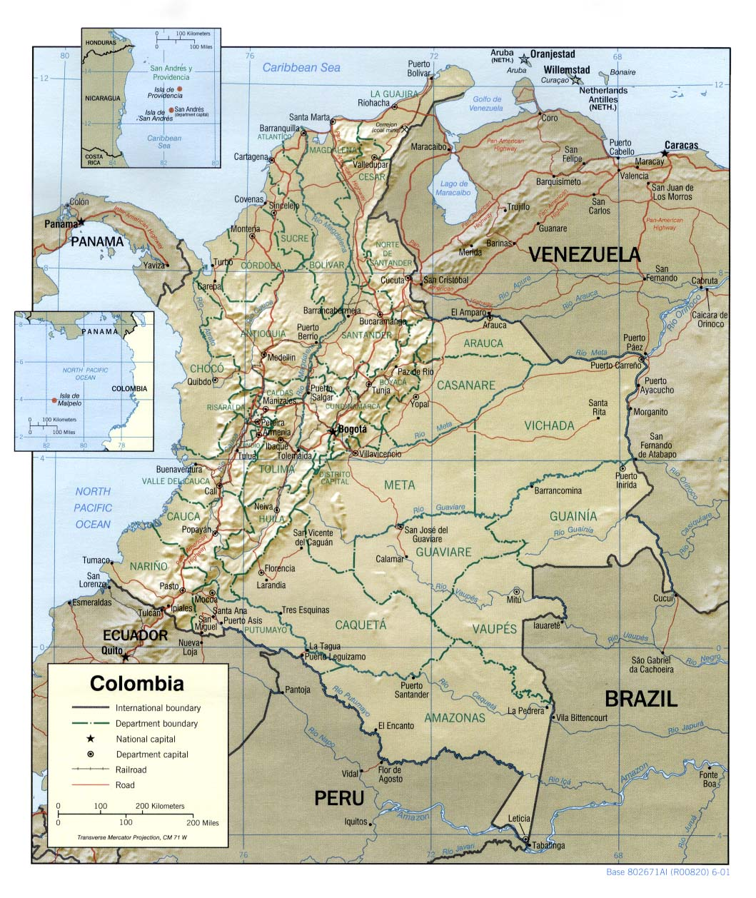 Shaded relief map of Colombia.